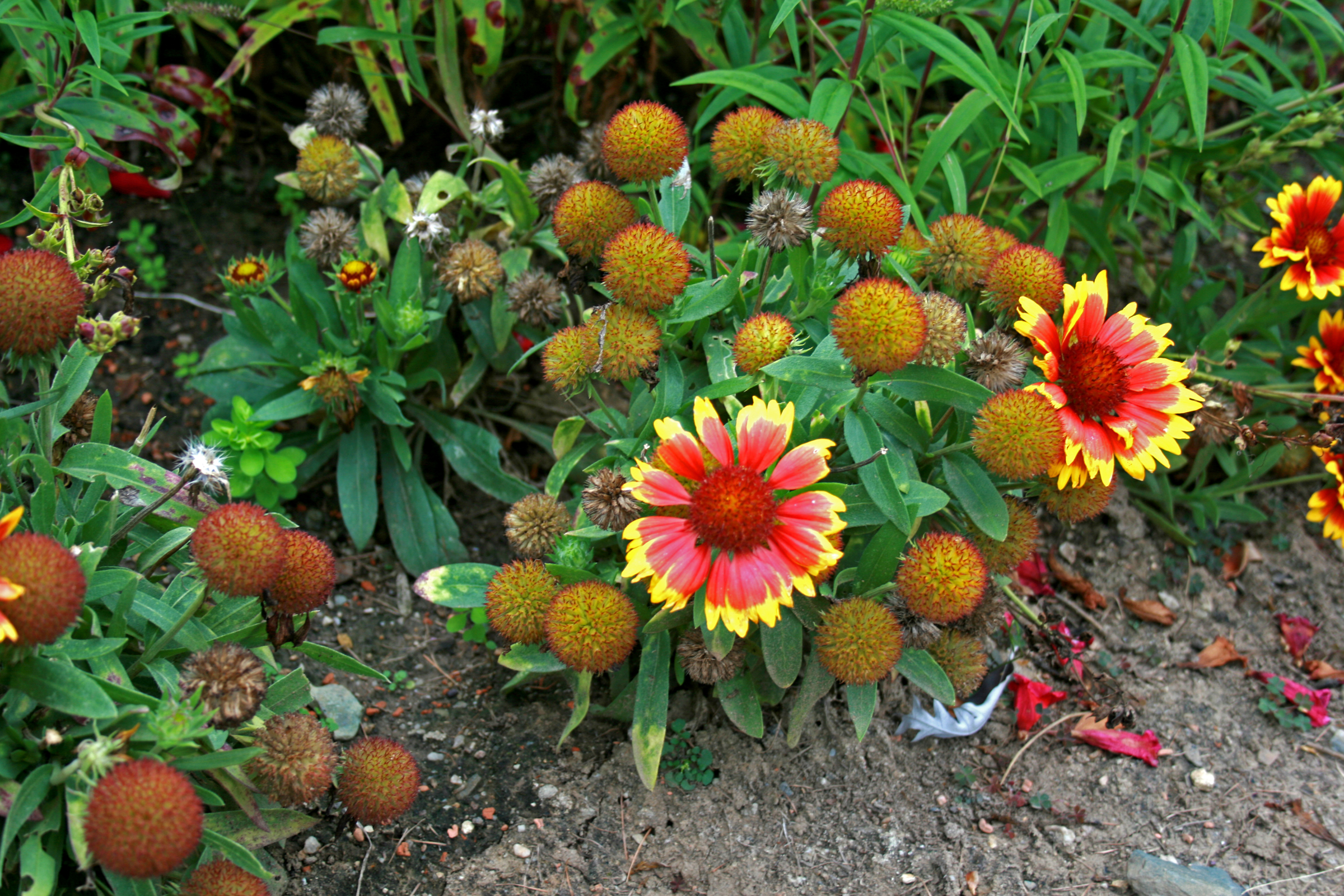 Flower Gaillardia aristata in Prague Botanic Garden, Prague, Troja